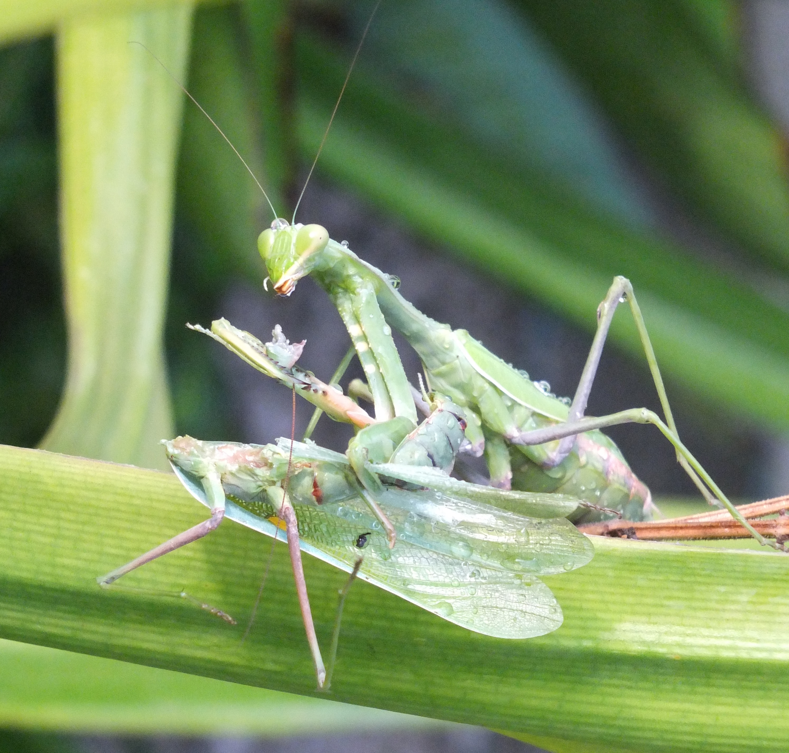 Mantis, female decapitate the male after mating